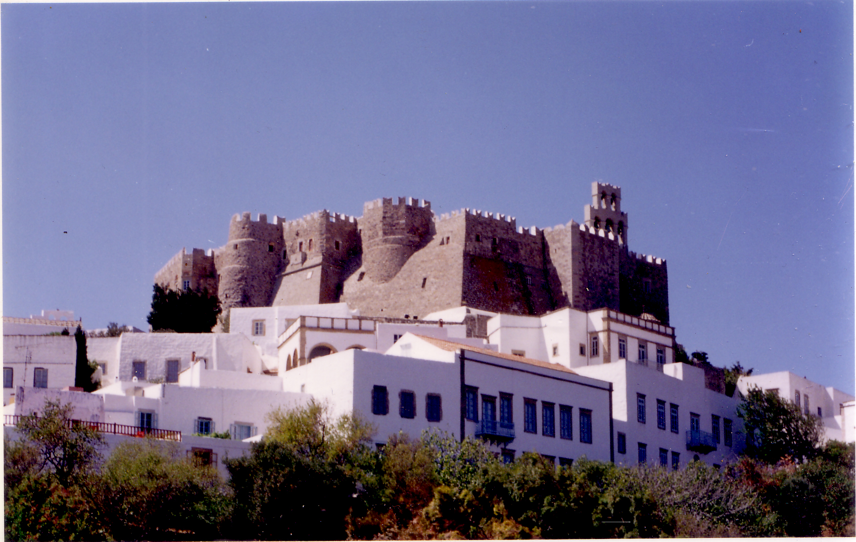 St. John monastery, Patmos island